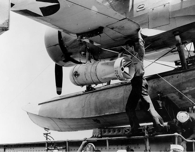 A Mark XVII depth bomb is removed from the port wing rack of a U.S. Navy Curtiss SOC-3 Seagull scout-observation aircraft, on a catapult of USS Philadelphia (CL-41), 2 July 1942.